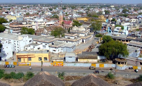 jhansi